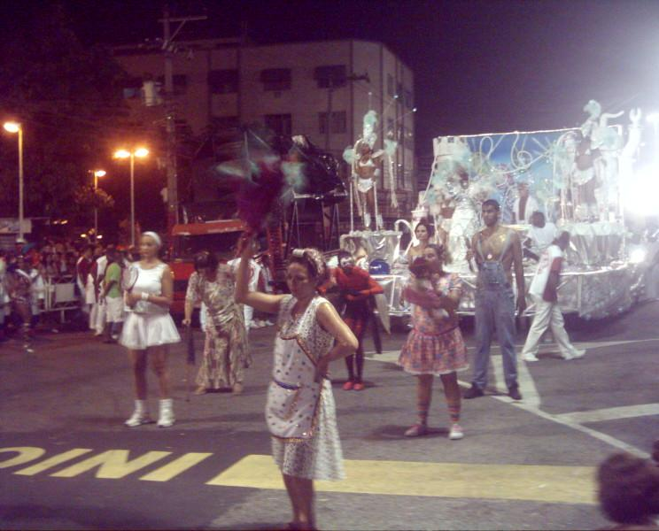 Front comission of Unidos do Cabral, 4ª division of carnival of Rio de Janeiro, estrada intendente magalhães.